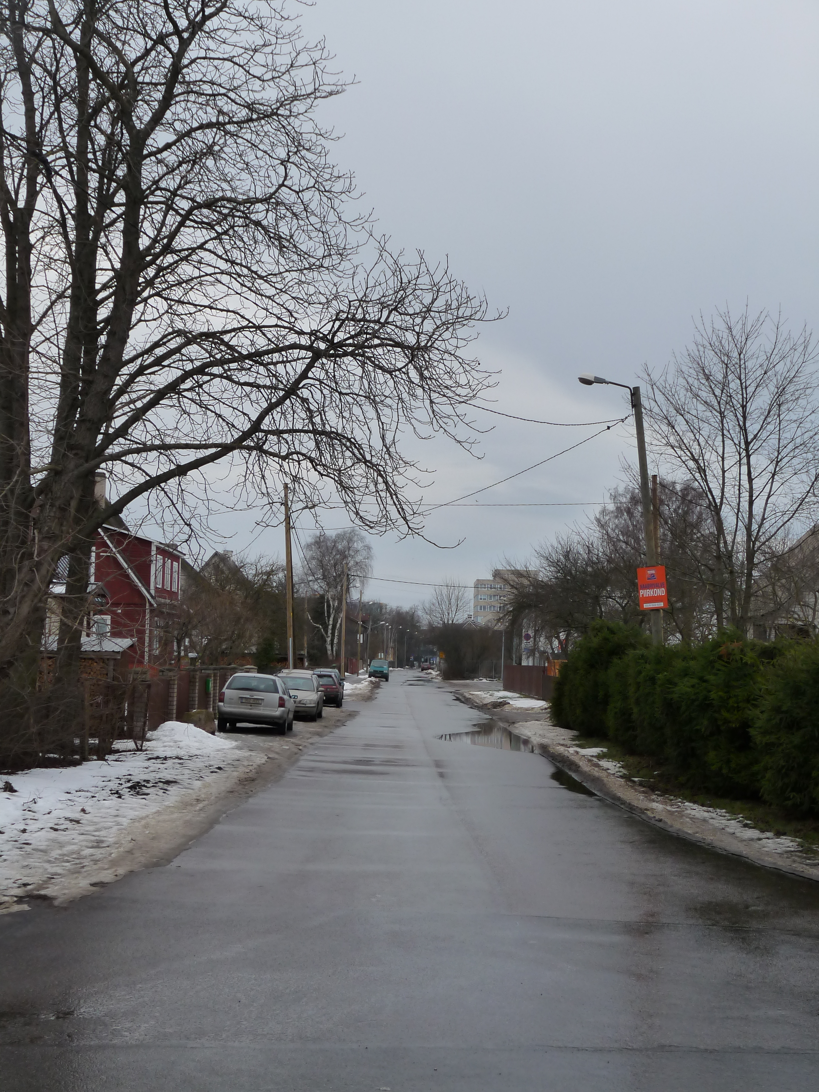 Mehaanika street in Tallinn, Estonia